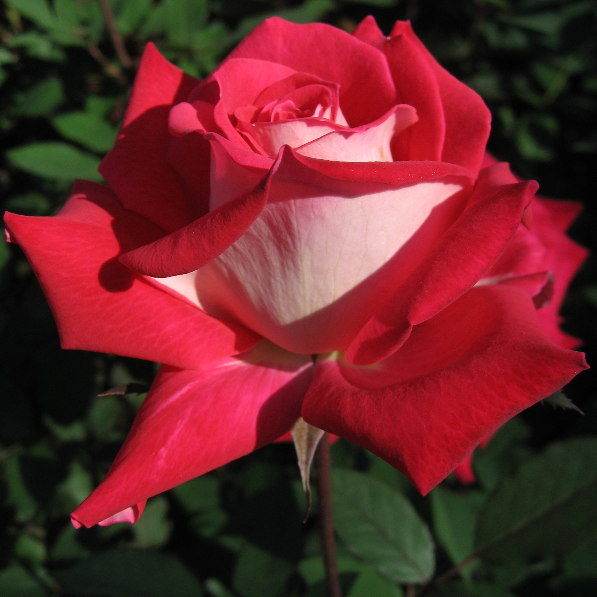 Rosa 'Love', Grandiflora, William A. Warriner (1980) Jingu Rose Garden, Uji-Nakanokiri Ise, Mie Japan.